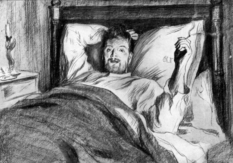 Drawing The Awakening of man waking in bed (c. 1900), as illustration to writing by Leo Tolstoy.